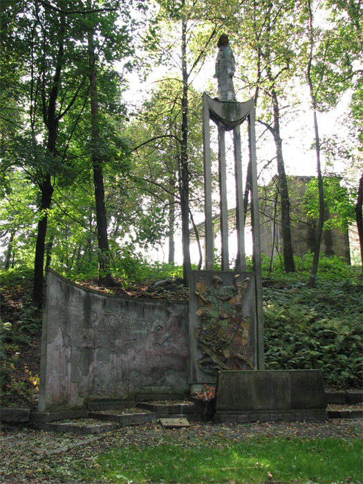 Calvary in Katowice Panewniki, Chapel of the Rosary - The fourth glorious mystery "Assumption of Mary". Completed in 1963.